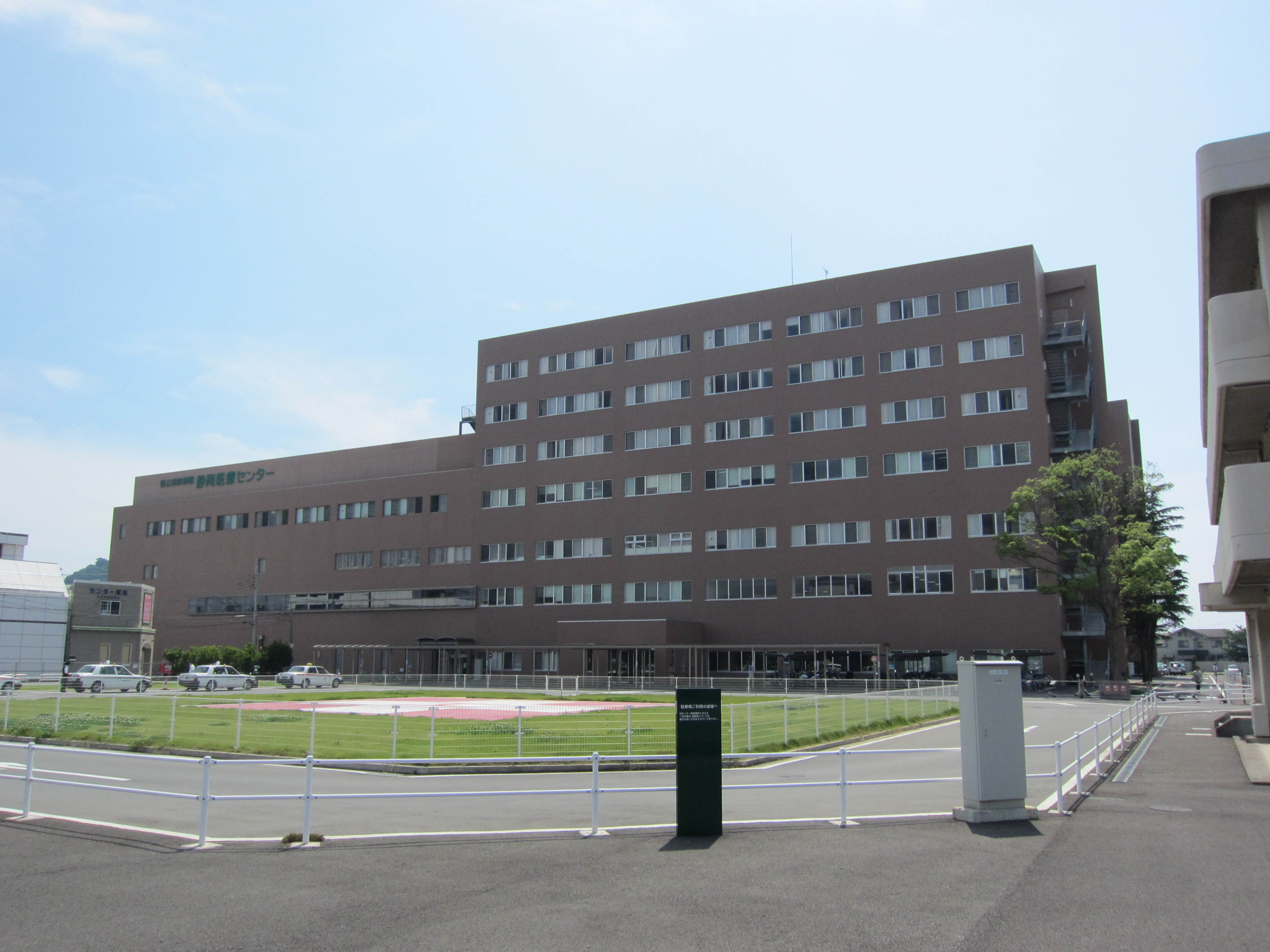 National Hospital Organization Shizuoka Medical Center